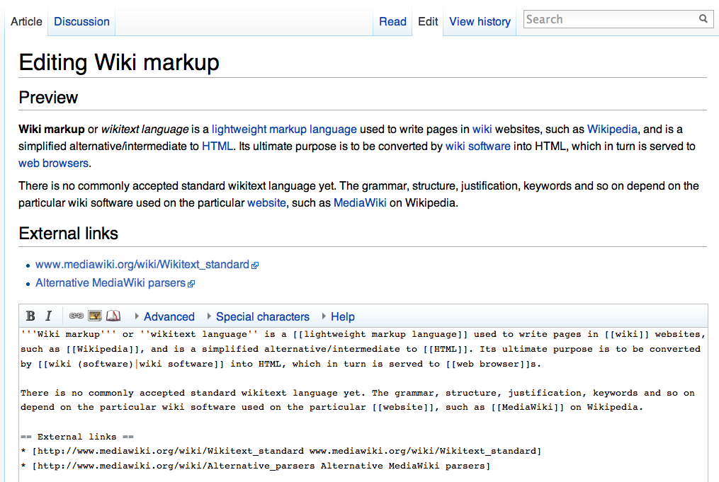 A screenshot of Wikipedia's wiki markup article (slightly modified to show what wikitext essentially means) in edit/preview mode (using MediaWiki 1.16 with default Vector skin)